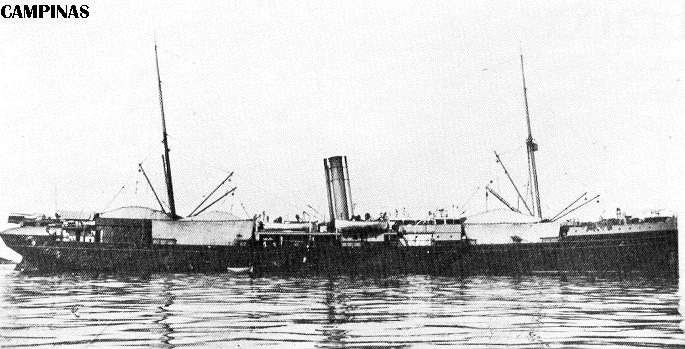 The seaplane tender Campinas in 1915.